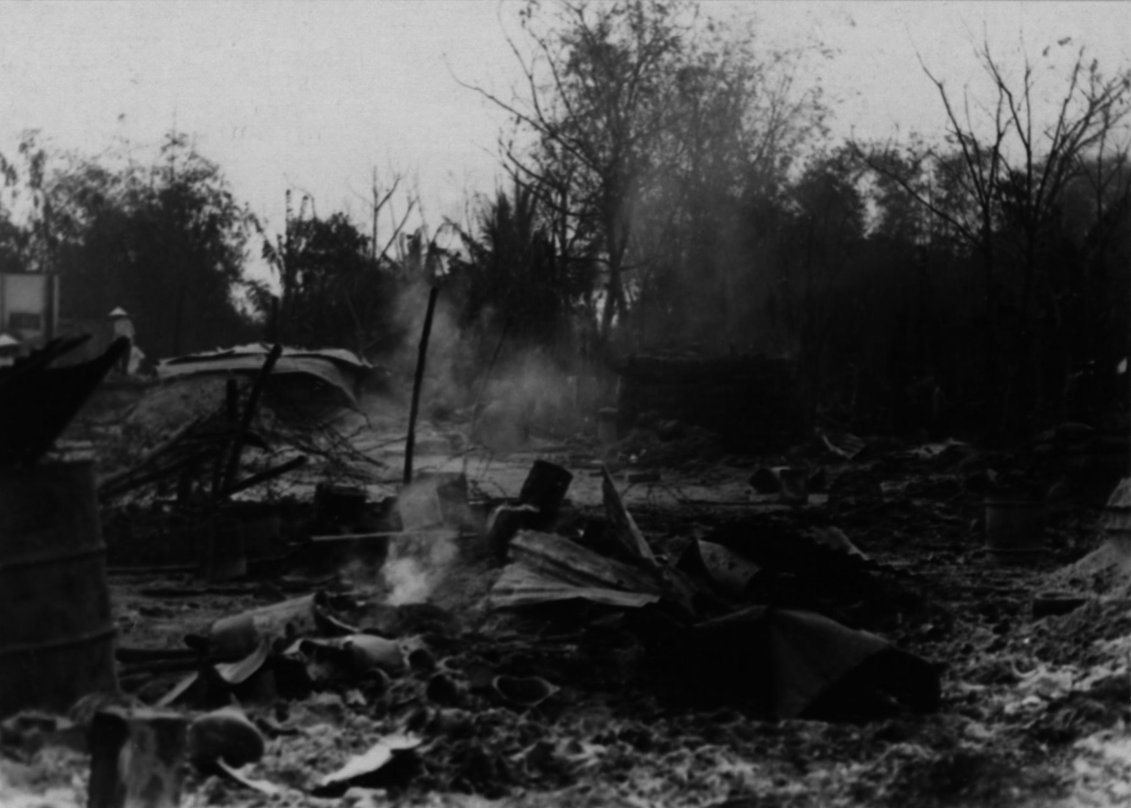 Photograph of destroyed village Thanh My 11 June 1970